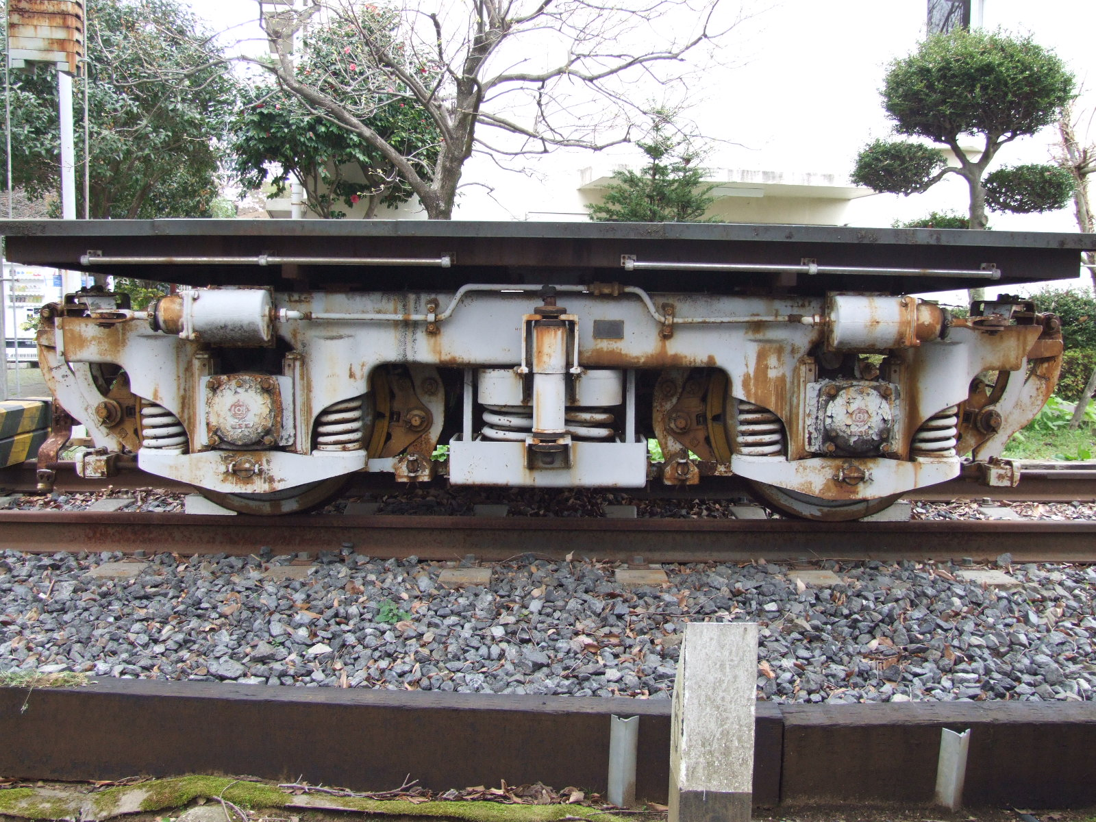 Bogie Truck KH-14,Series 2000 of Keio Corporation,Japan